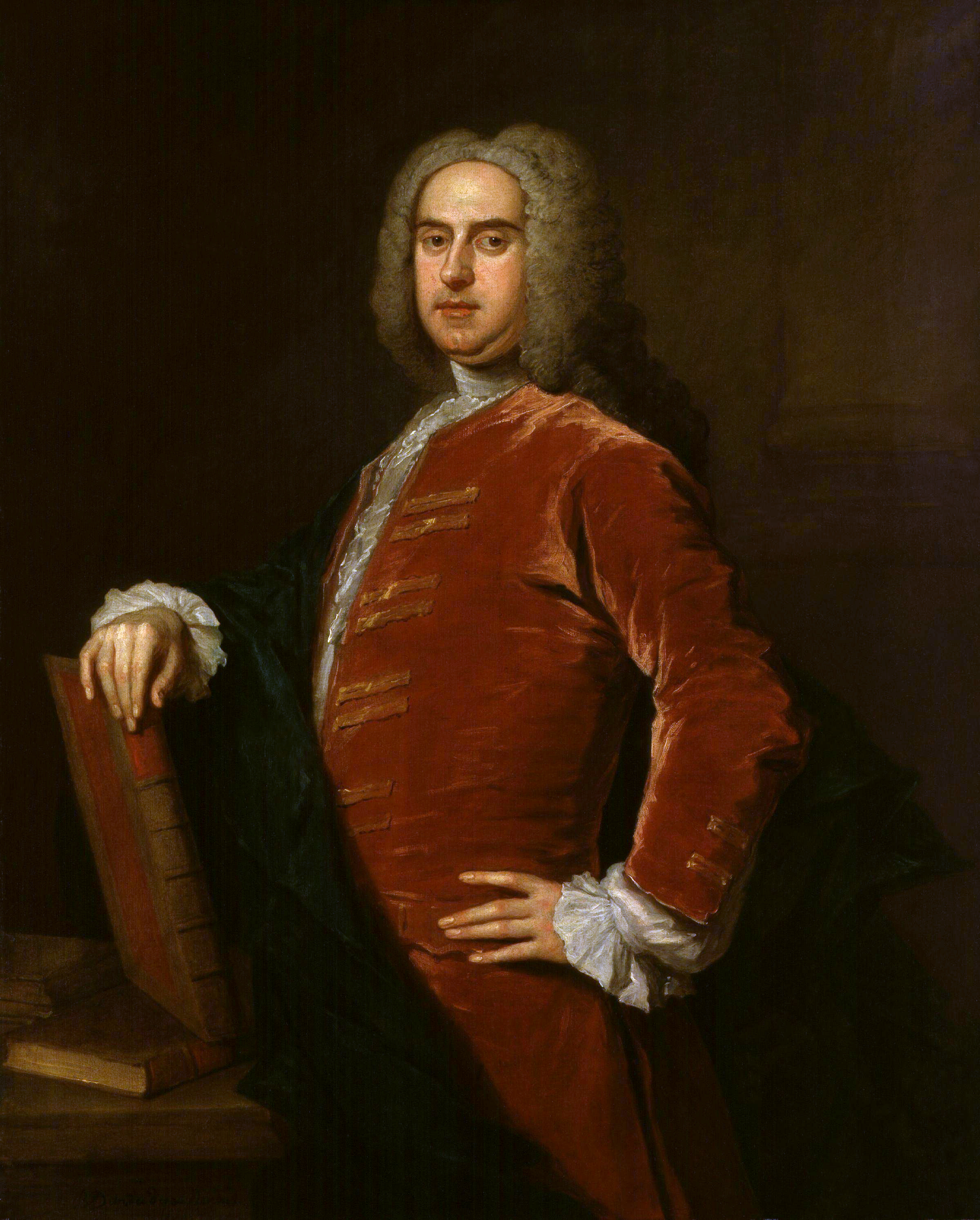 Nathaniel Hooke, by Bartholomew Dandridge, given to the National Portrait Gallery, London in 1859. All images in this batch have a known author, but have manually examined for strong evidence that the author was dead before 1939, such as approximate death dates, birth dates, floruit dates, and publication dates.